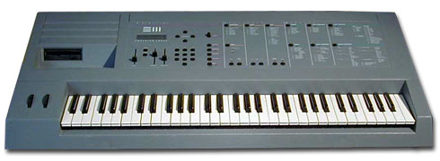 E-mu Emulator III